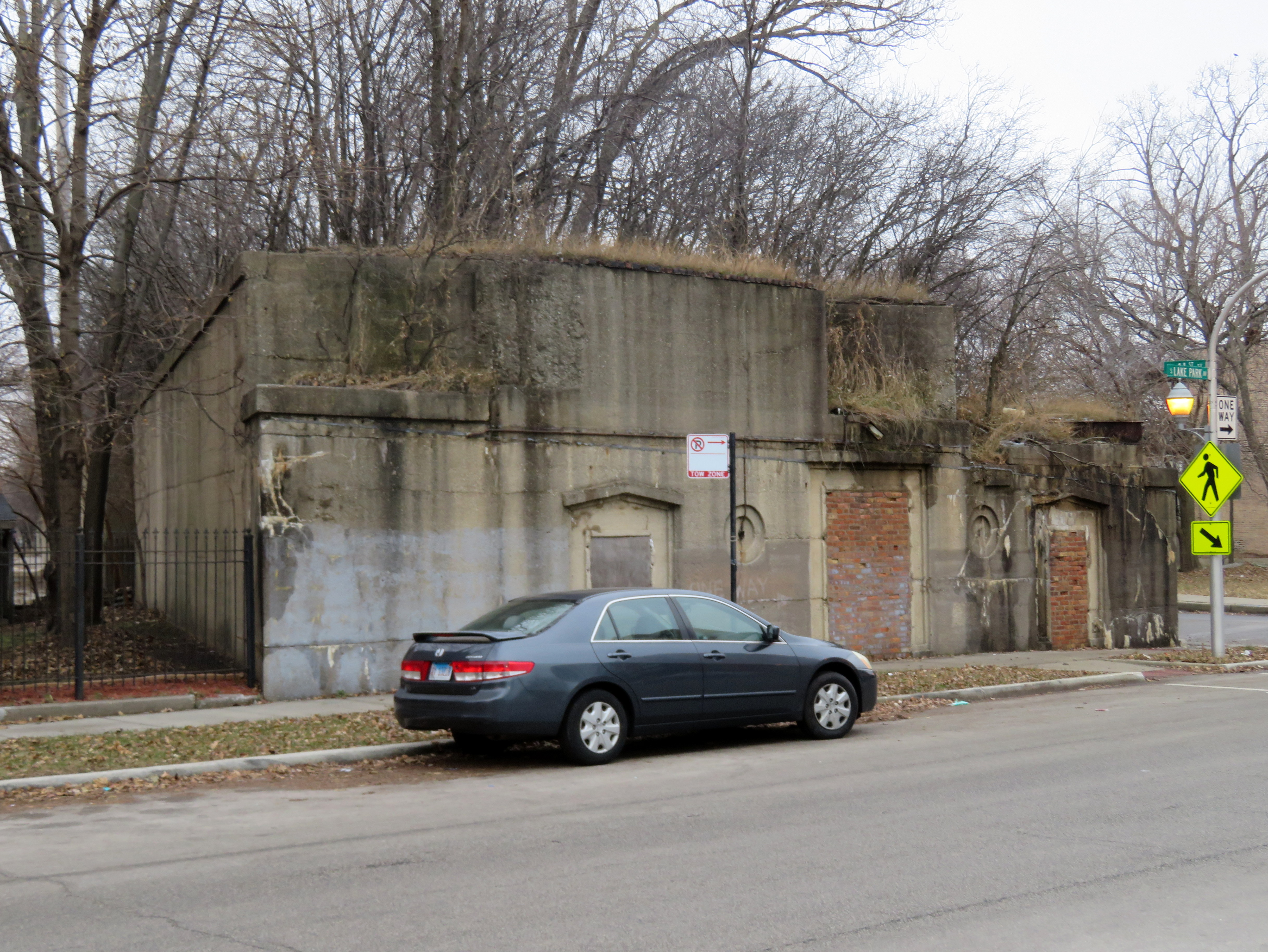 East end of the former Ellis/Lake Park station in December 2018